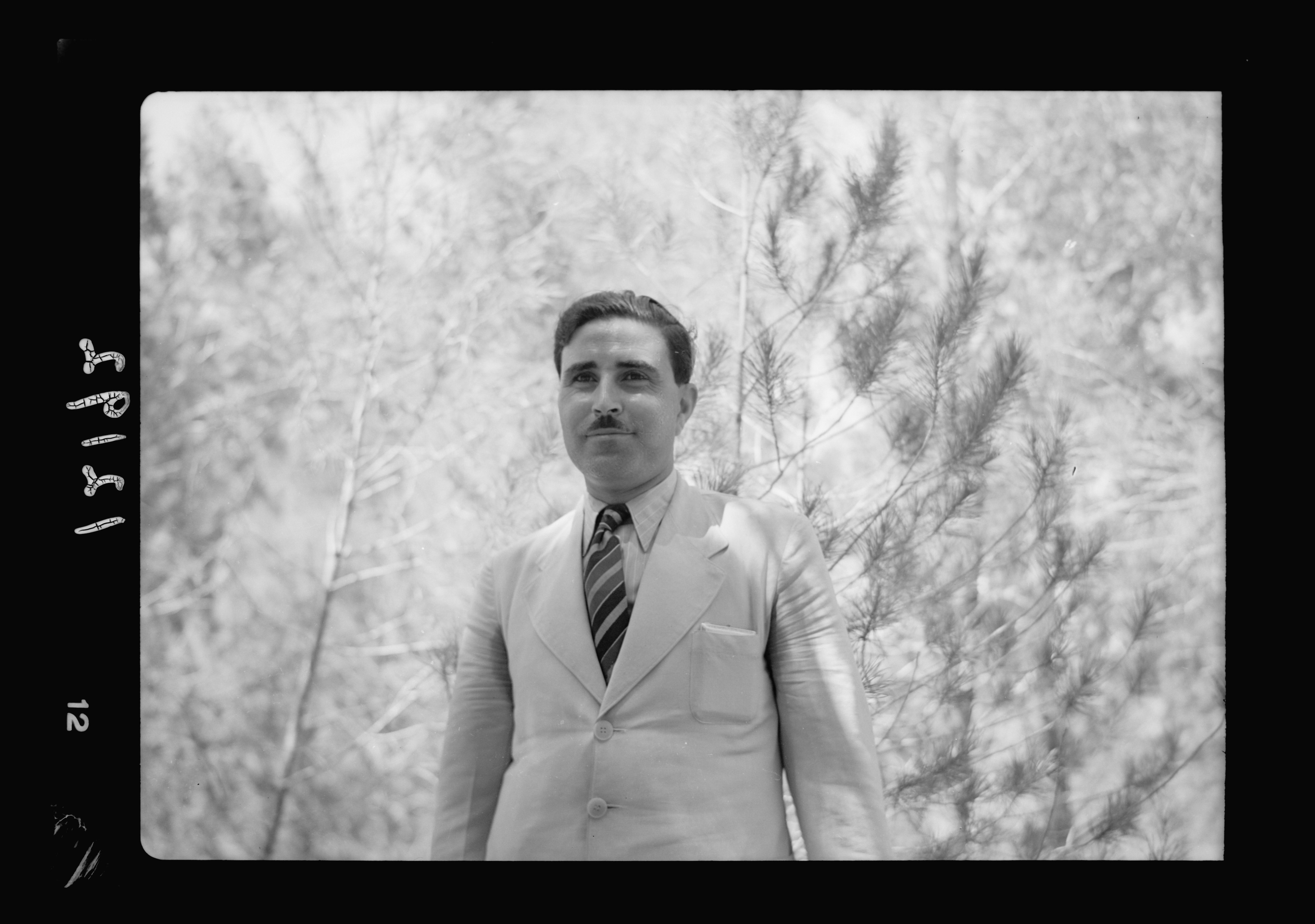 Title: Mr. Keith Roach's dinner to Mukhtars at Emmaus. Jamal Bey Toukan Abstract/medium: G. Eric and Edith Matson Photograph Collection Physical description: 1 negative